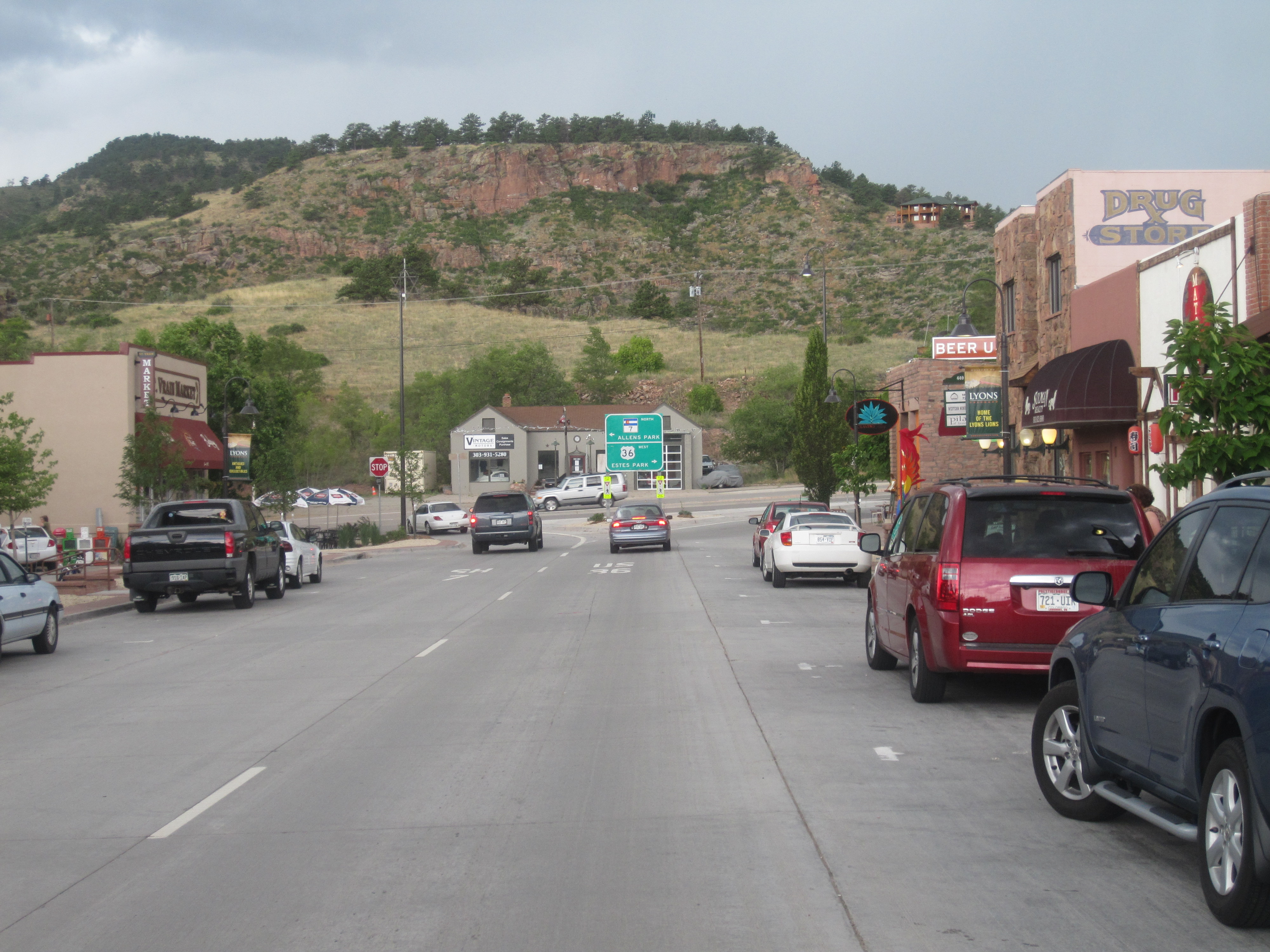 I took photo with Canon camera in Lyons, CO.